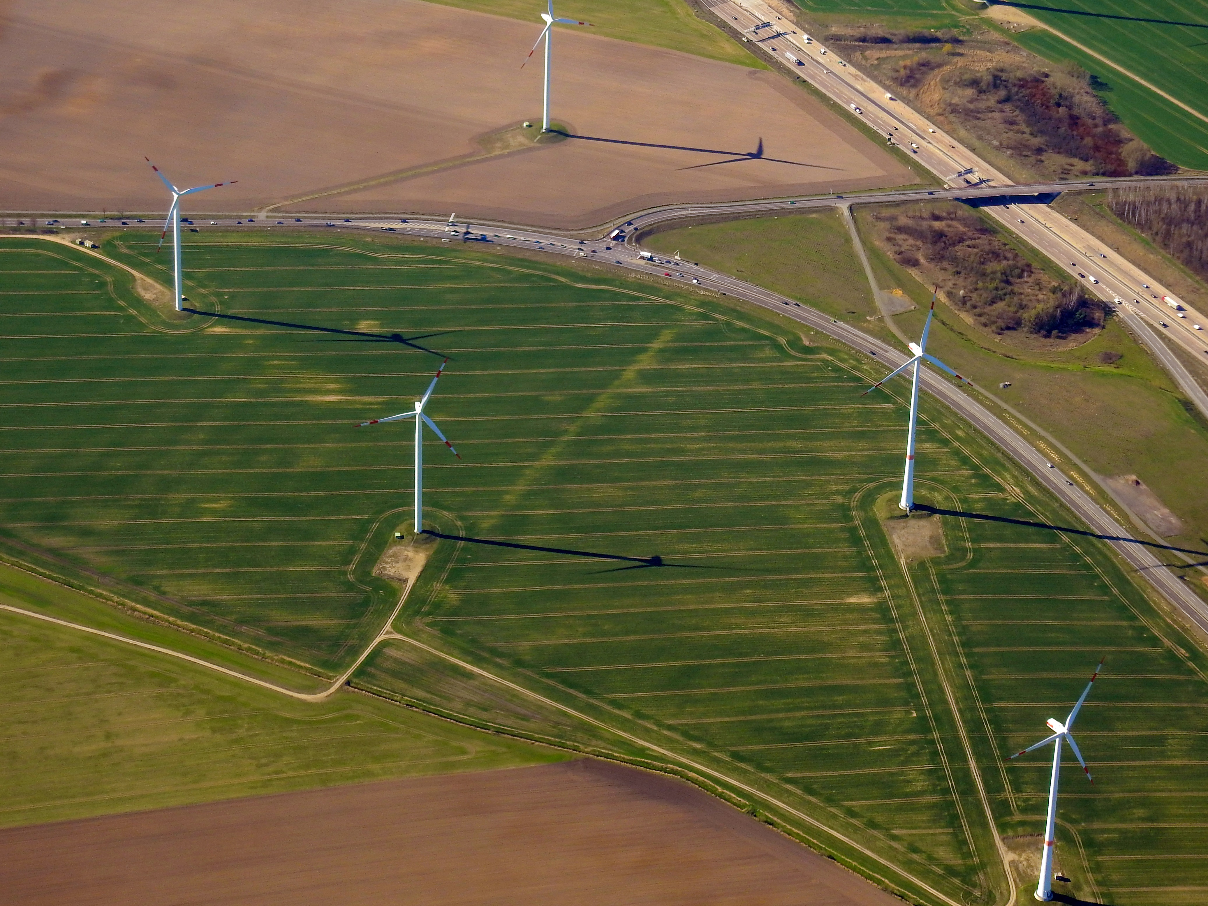 Wind farm in Panketal, in the district of Barnim, in Brandenburg, Germany.